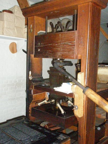 Printing_shop_at_Colonial_Williamsburg